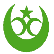 The reconstruction of the official logo of the Green Cadres paramilitary force during World War II.